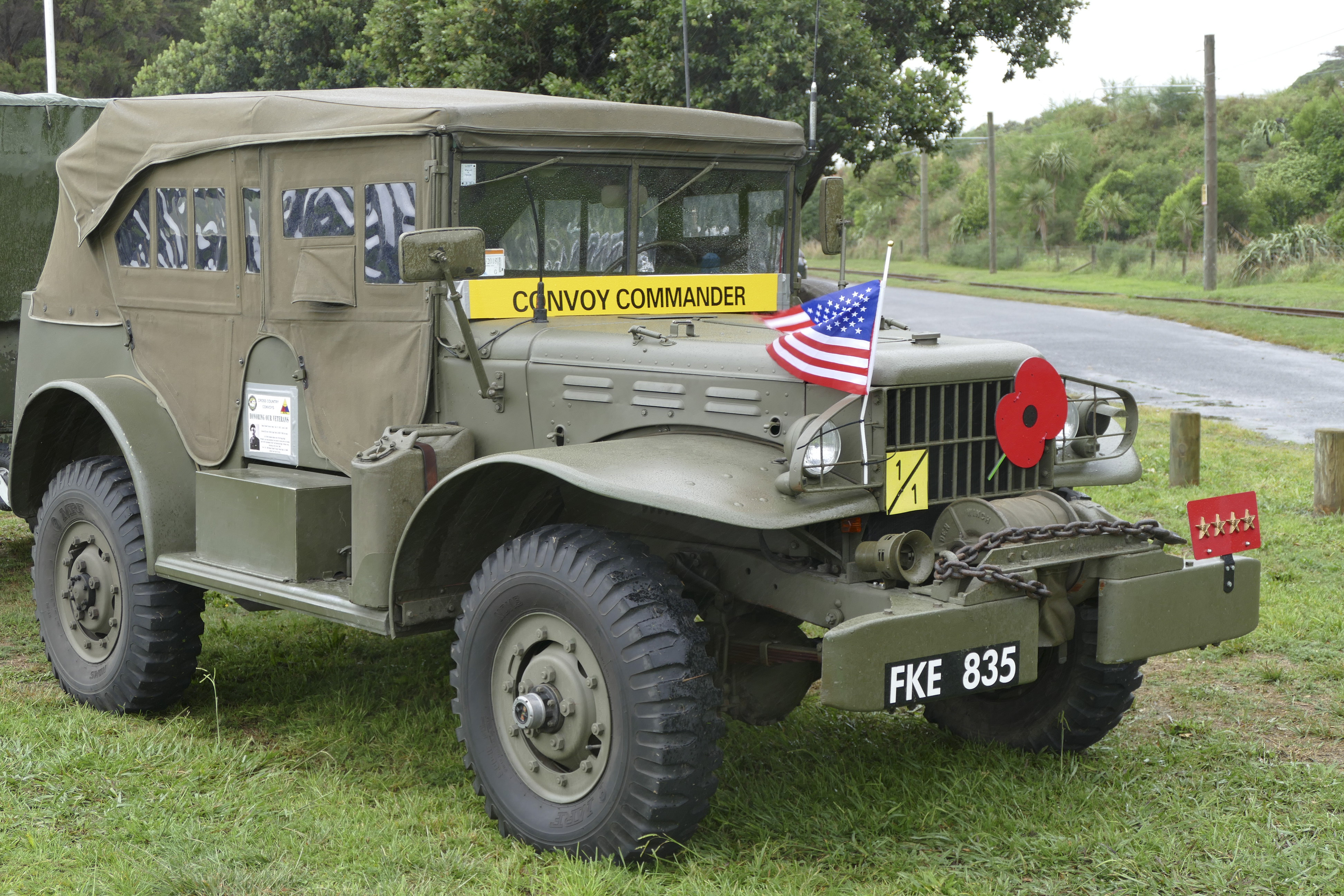 DCM Sue Niblock and Embassy colleagues met the Armistice 100 Easter Rally as it came into Queen Elizabeth Park at Paekakariki. The convoy of 23 mostly vintage military vehicles is traveling all around the North and South Islands and includes 12 Americans with vehicles they have brought from the U.S. for the event. Vehicles include jeeps, Chevy and Dodge trucks, a Unimog and a Bedford. The group is stopped at QE Park to visit the Marines Memorial and hear about the history of the Marines in the area during WWII.